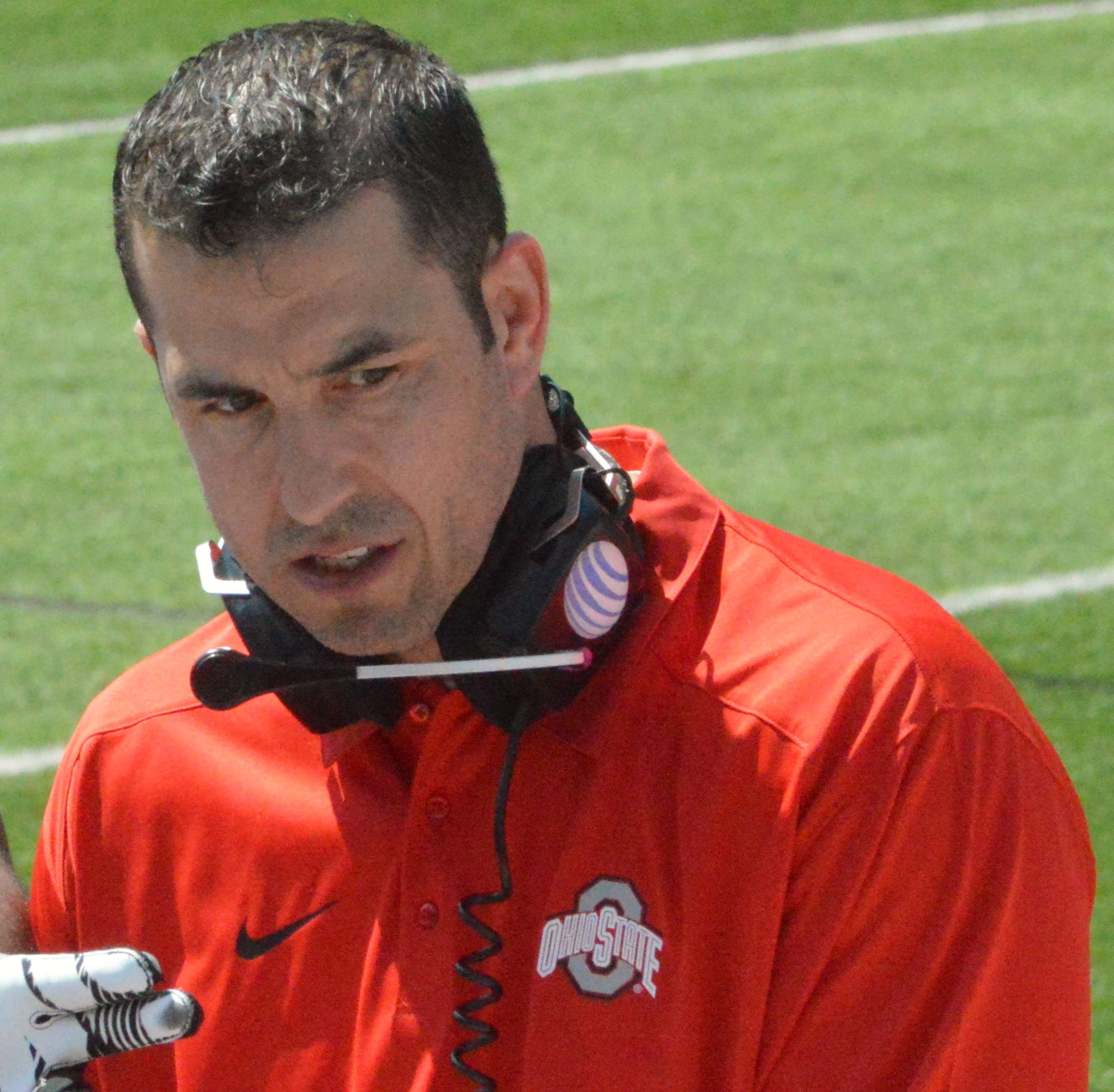 Ohio State University football co-defensive coordinator Luke Fickell at the 2014 spring game.